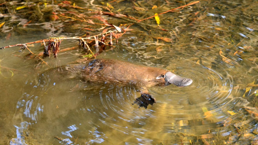 Wild platypus in a creek in Tasmania